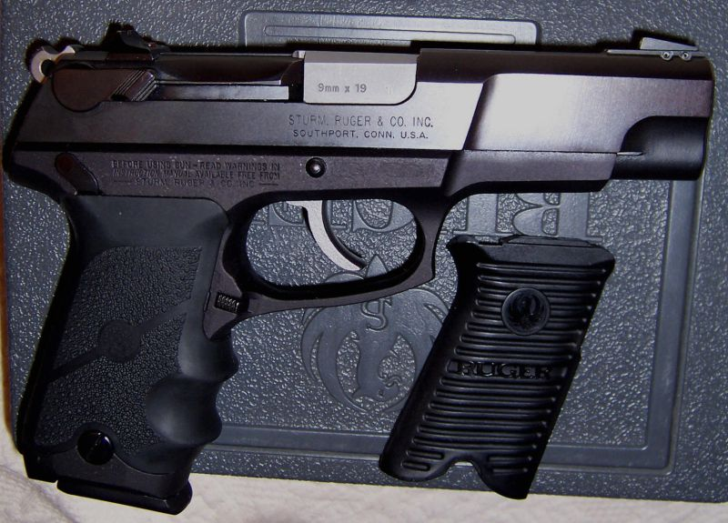 Ruger P89 9mm Handgun (Right Side) - Shown with after market Hogue grip installed, original grip is shown detached.